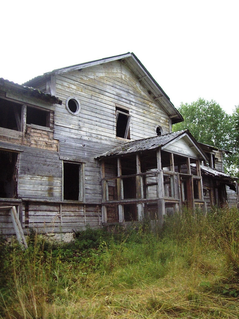 Pirttipohja, an abandoned village in Sortavala District of the Republic of Karelia